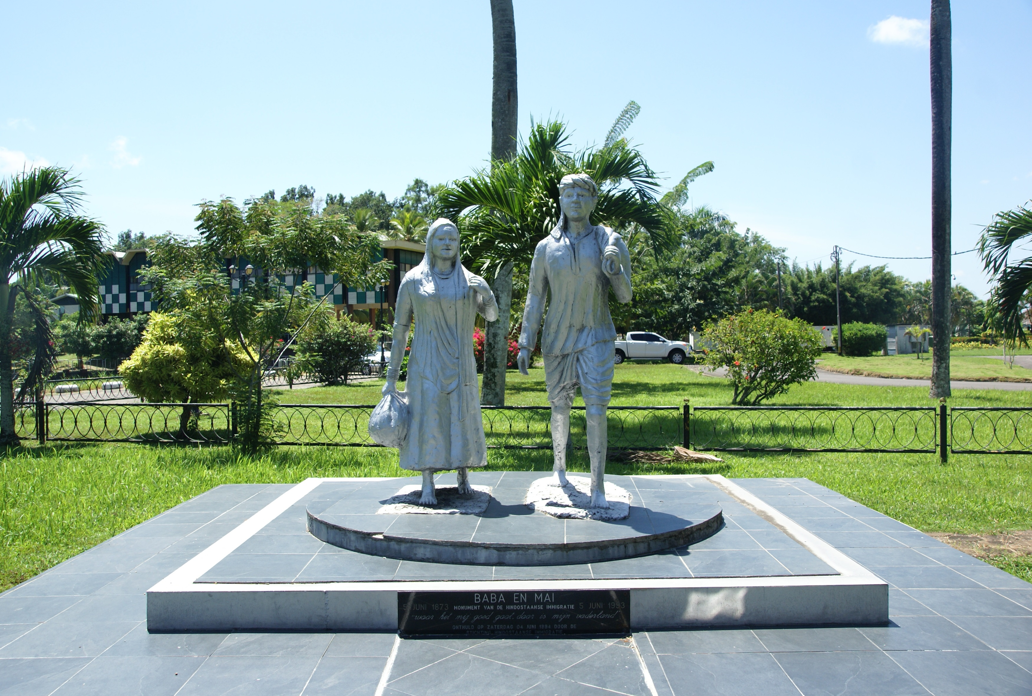 Statue of Baba and Mai, Kleine Combeweg, Paramaribo, Surinam. By Krishnapersad Khedoe (1993).